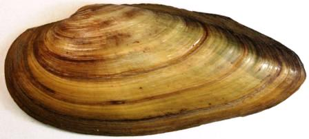 Shell of Unio pictorum from the Netherlands